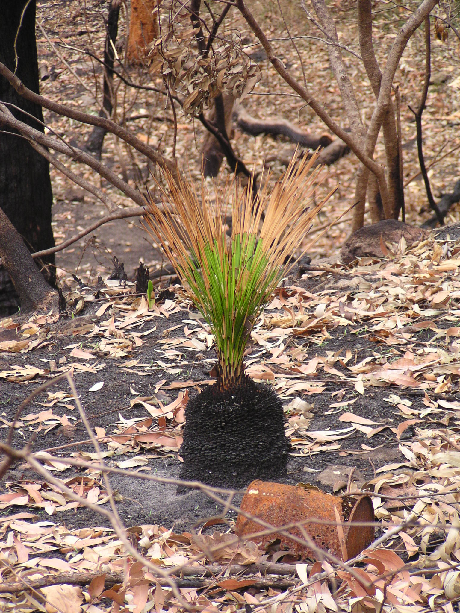 Grass Tree (Xanthorrhoea) greening up again after a fire. Taken in Badangi Reserve, Wollstonecraft after a regeneration burn.